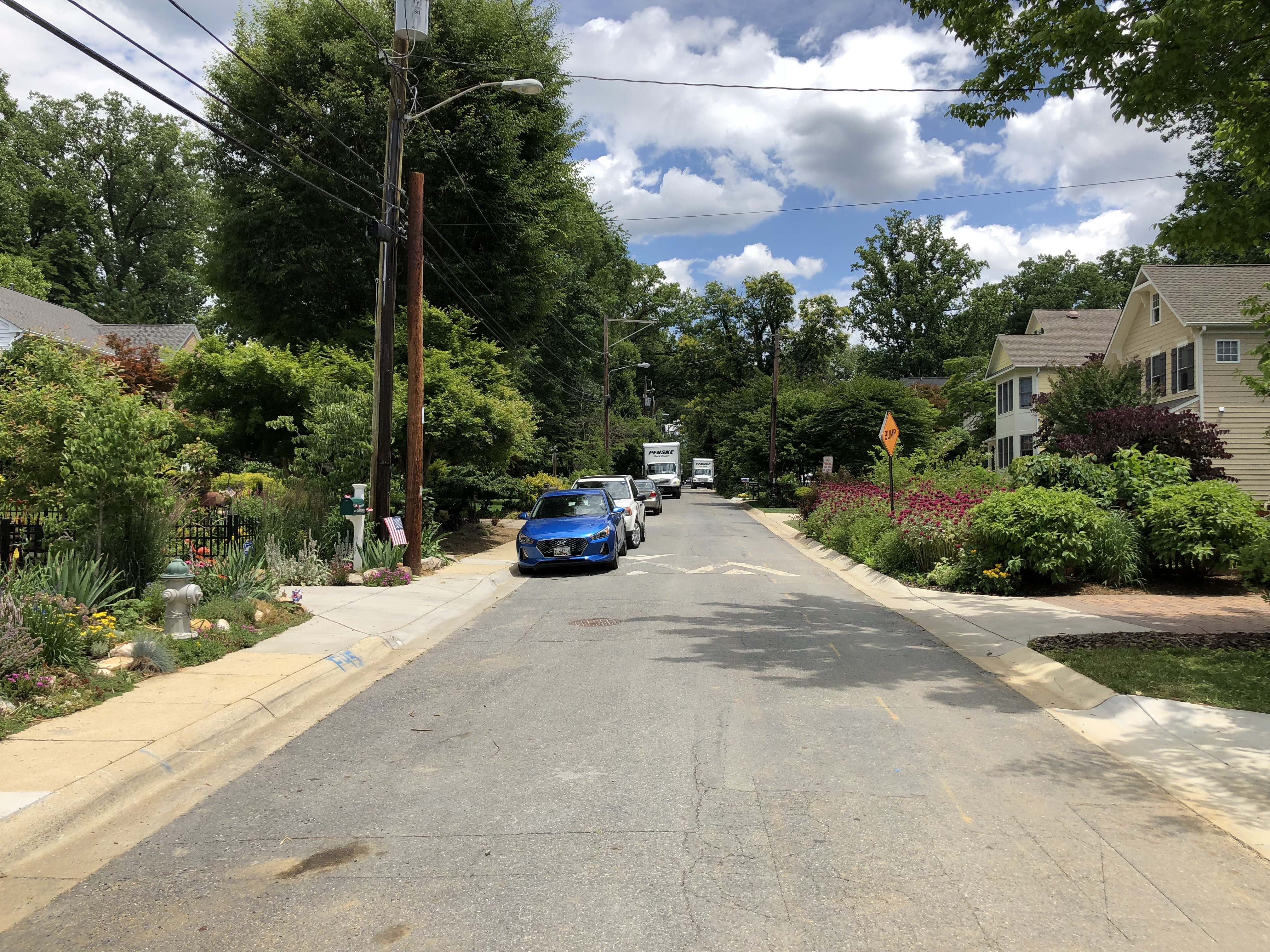 View east along Oak Place between Hempstead Avenue and Daley Lane in Oakmont, Montgomery County, Maryland